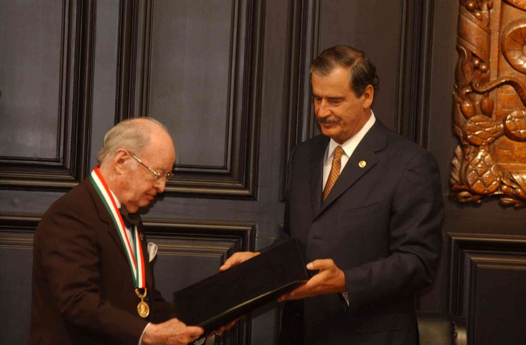 Mexican President Vicente Fox awards the Belisario Domínguez Medal of Honor to Carlos Canseco González. October 7, 2004. Photographer: Gustavo Benítez.